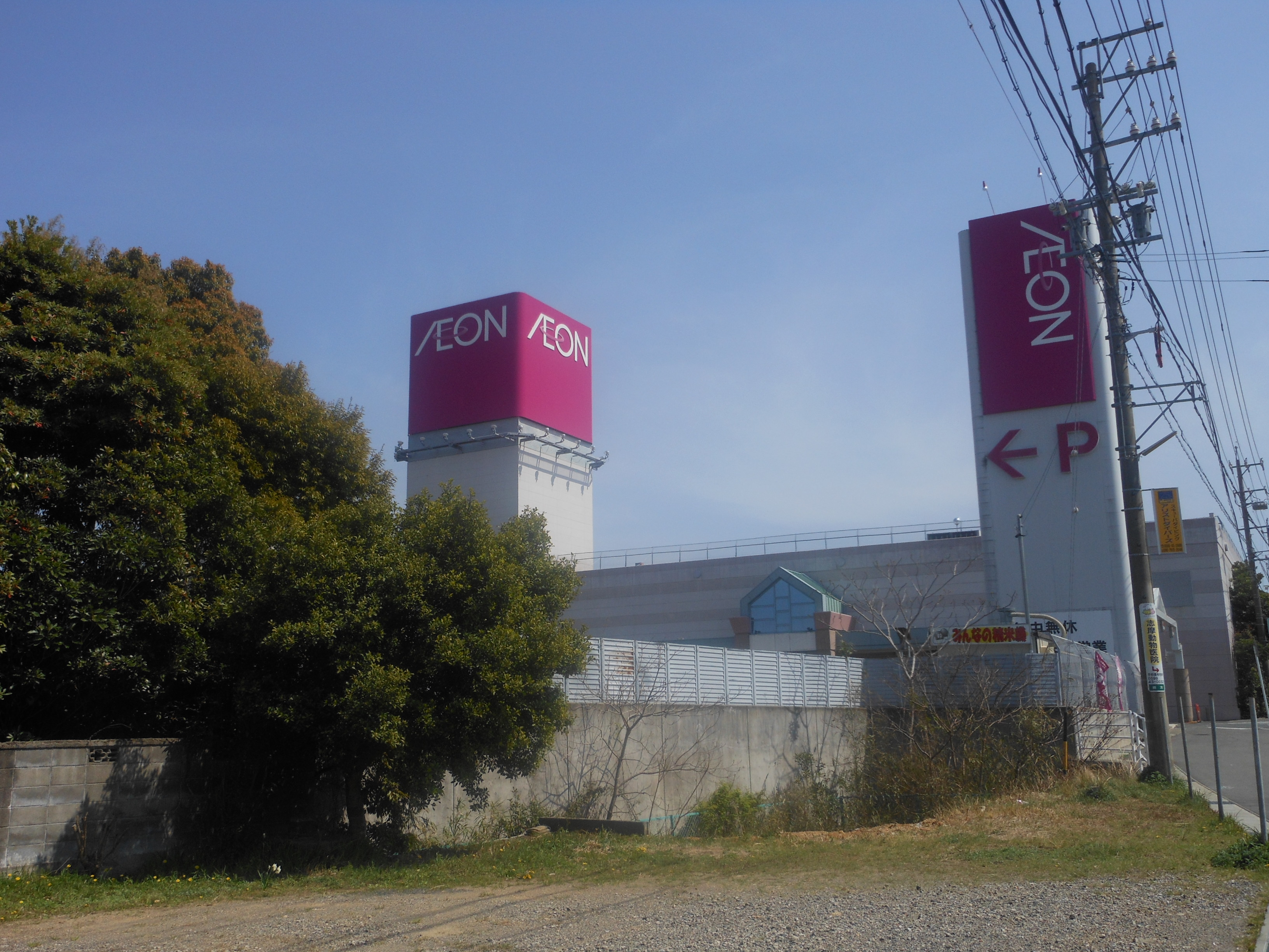 A shopping center in Shima, Mie, Japan.